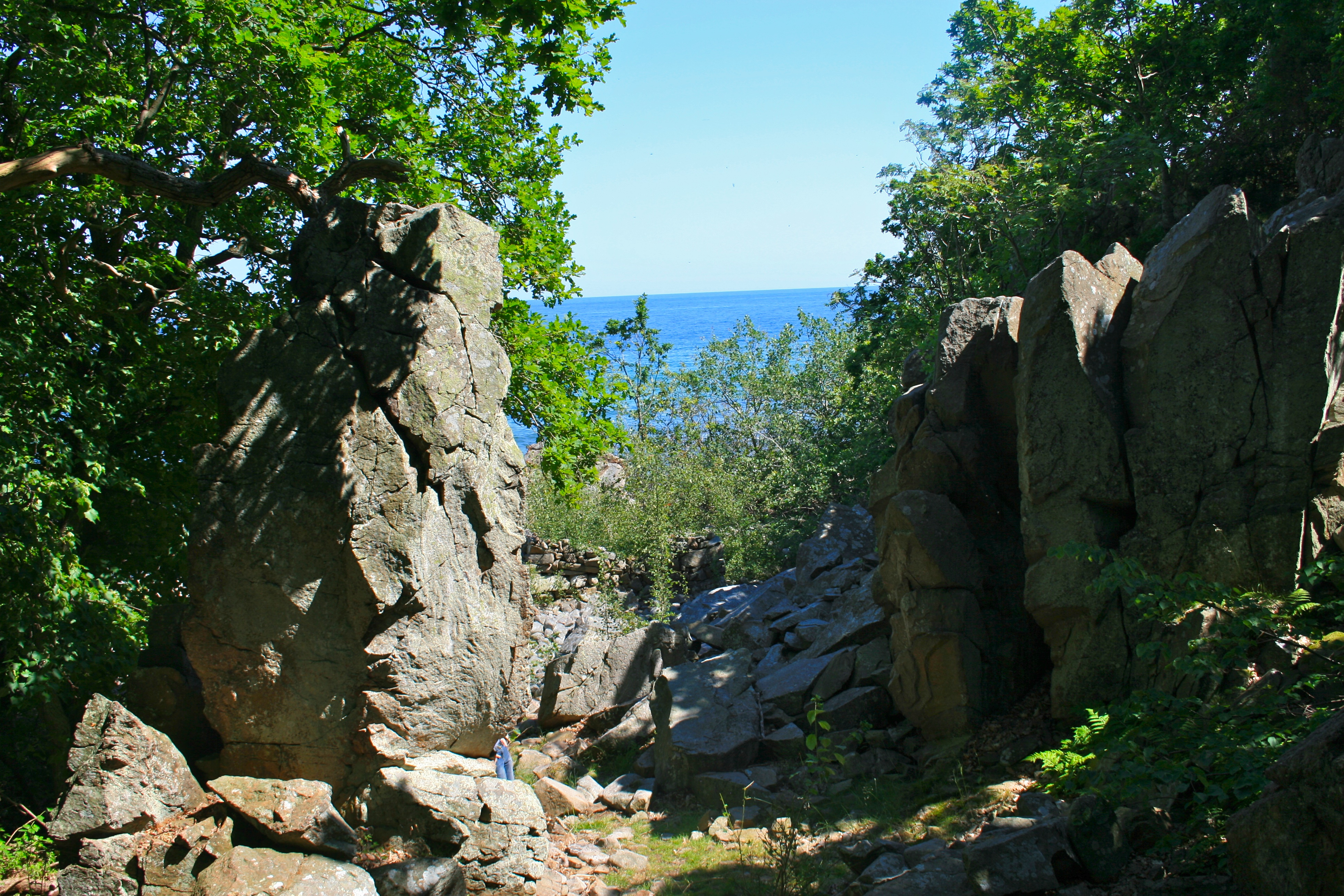 Jättens port, Stenshuvud national park